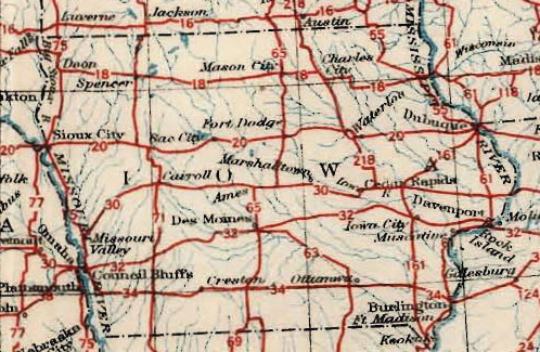 "Final" map of Iowa's U.S. Numbered Highways in 1926.